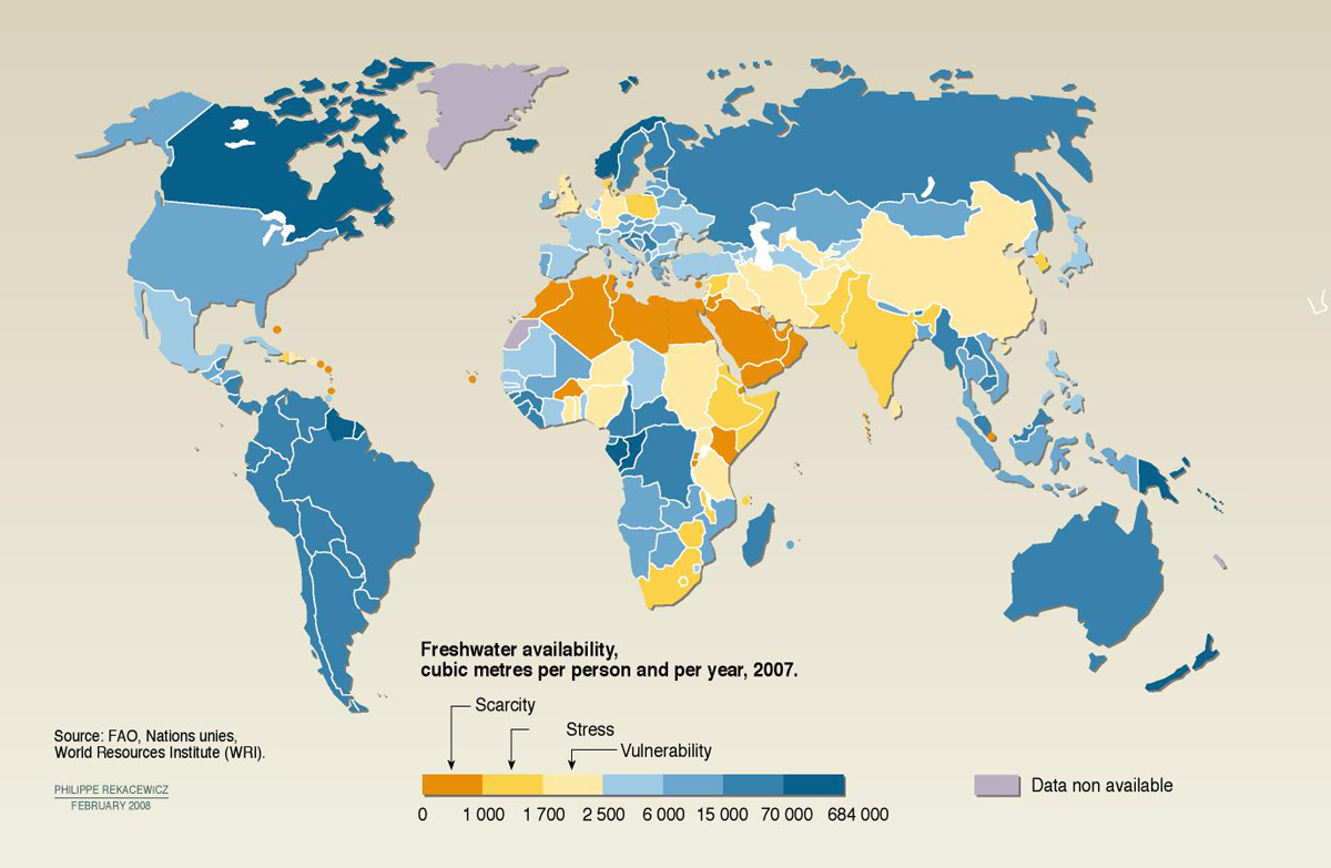 Global waterstress